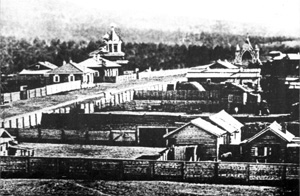 Our Lady monastery in Chita